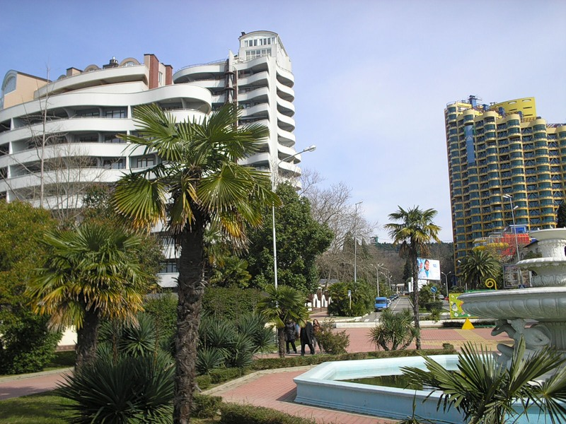 Sochi Skyscrapers